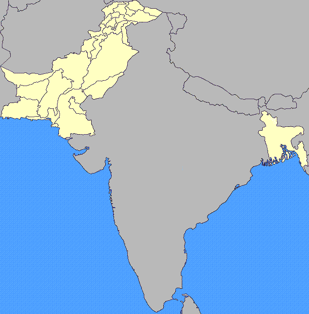 This map shows the relative position of Pakistan and it's administrative subdivisions up to 1970.